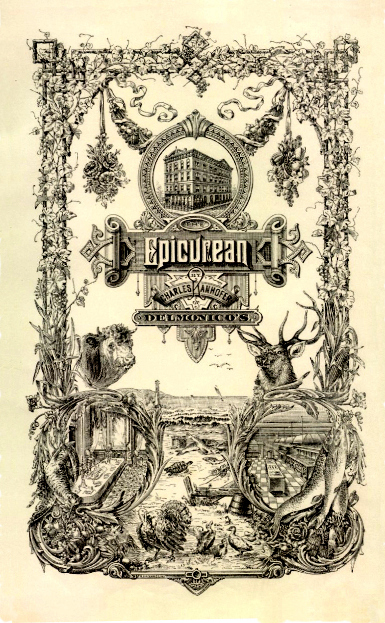 Frontispiece of the Epicurean book by Charles Ranhofer (1836-1899).